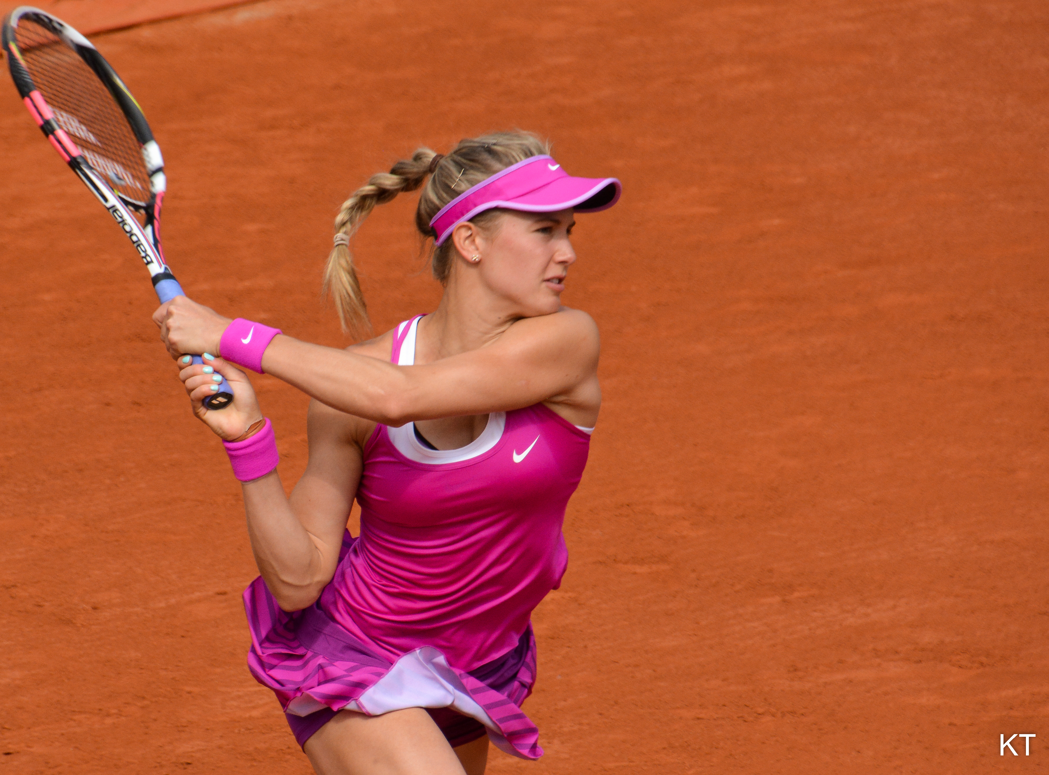 Eugenie Bouchard during her first round match with Kristina Mladenovic. Day 3 of Roland Garros 2015.